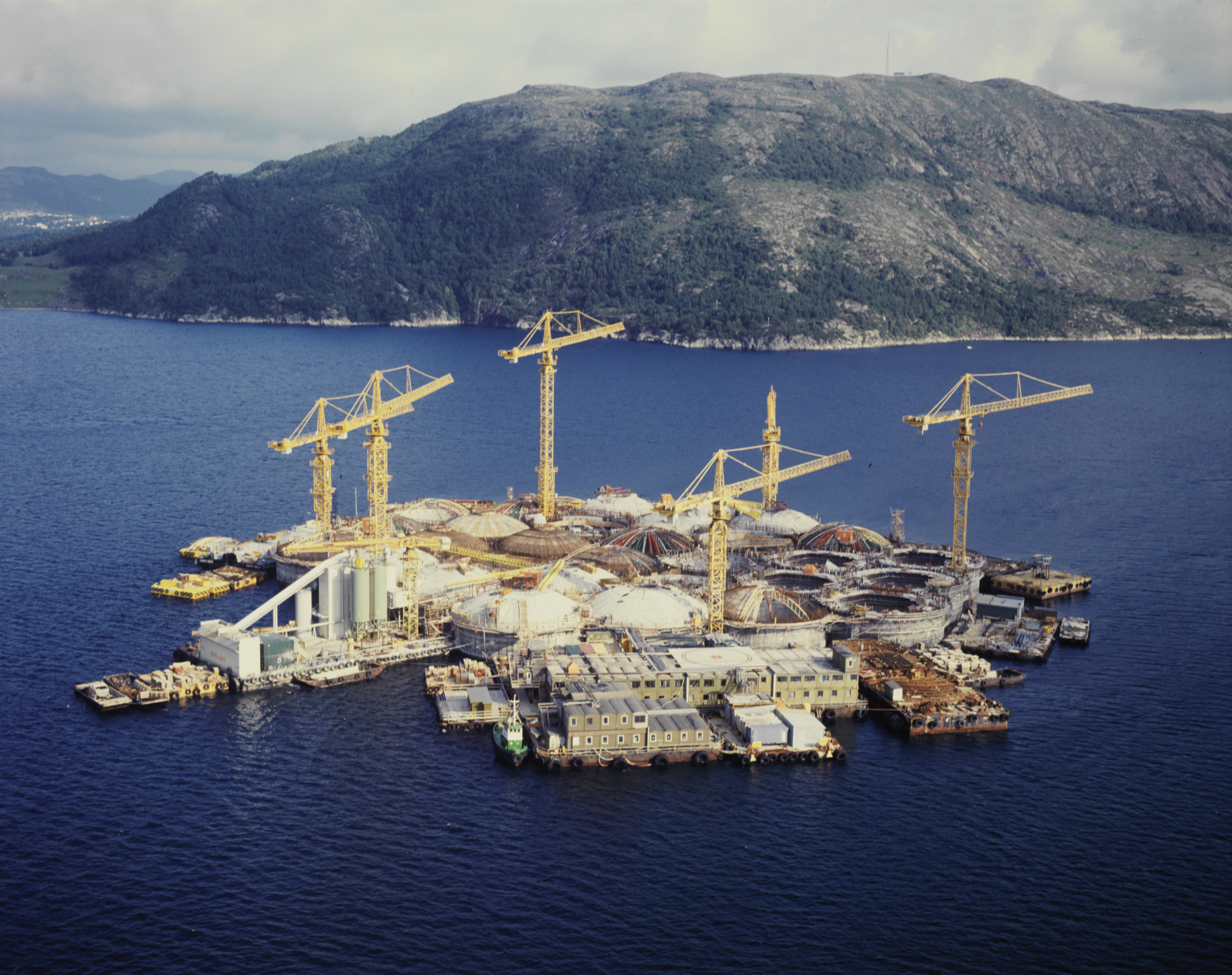 Foto av byggingen av understellet til en Condeep-plattform. Statfjord B. Gandsfjorden. Flyfoto